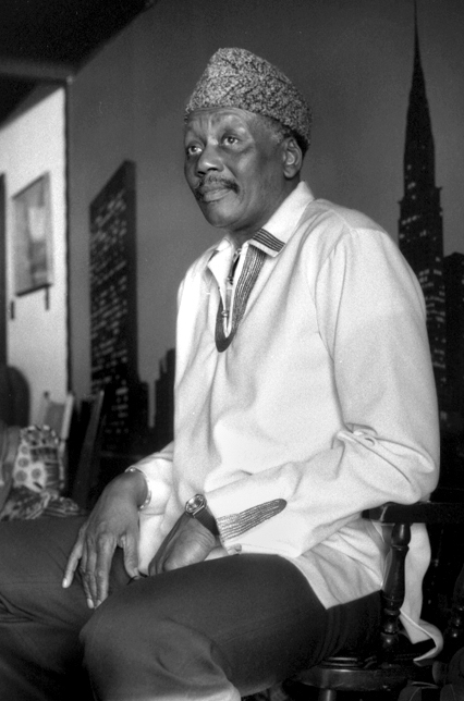 Randy Weston, 2/19/84, Half Moon Bay CA Photo by Brian McMillen /